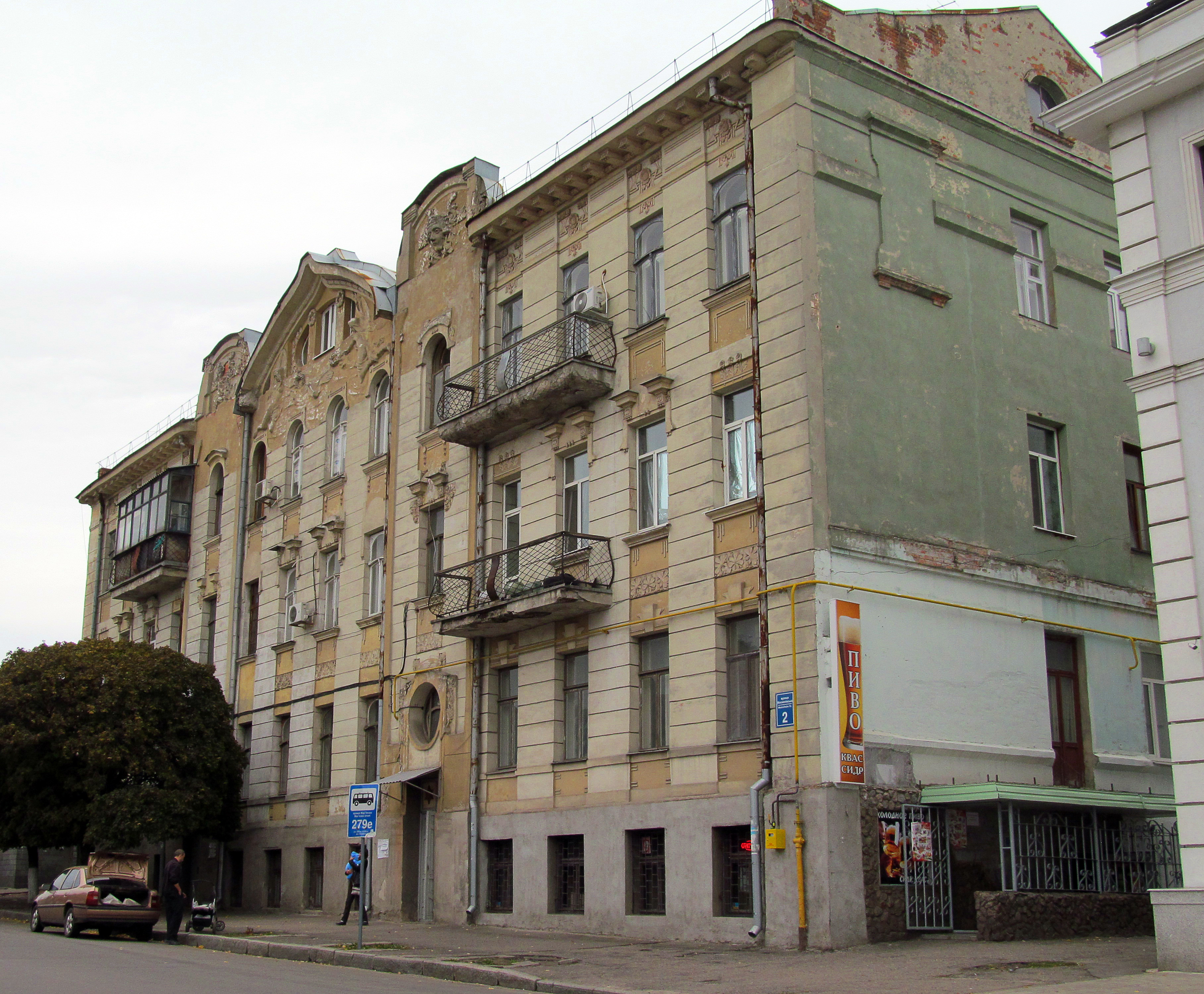 Moskalivska Street, 2, Kharkiv, Ukraine.